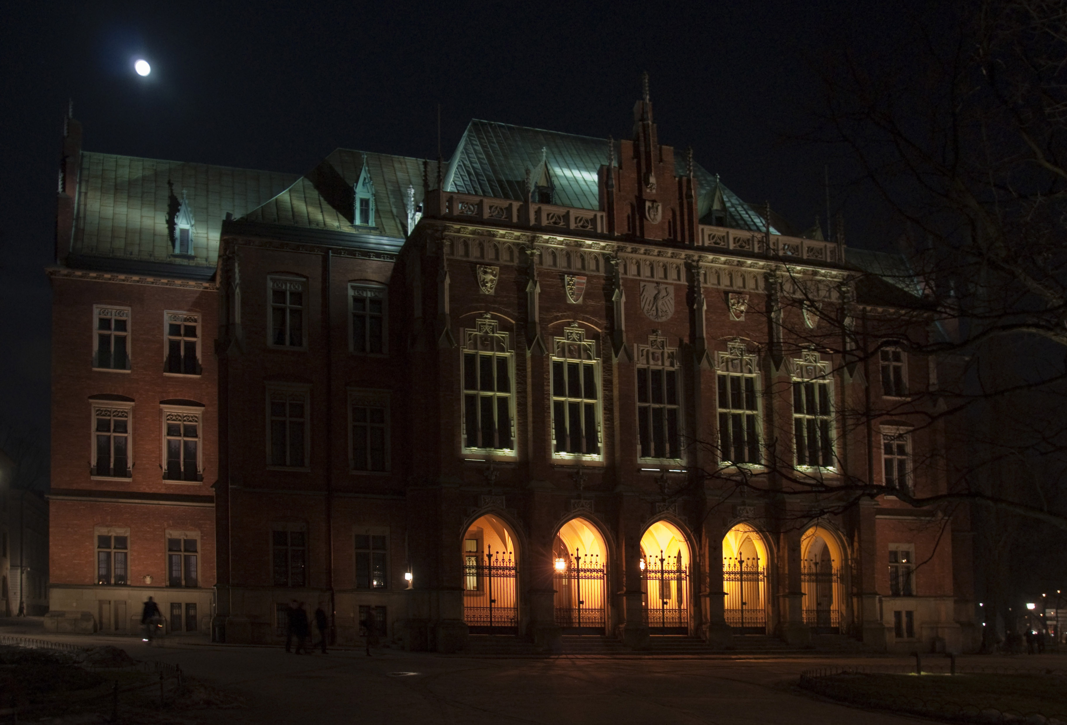 Collegium Novum in Kraków